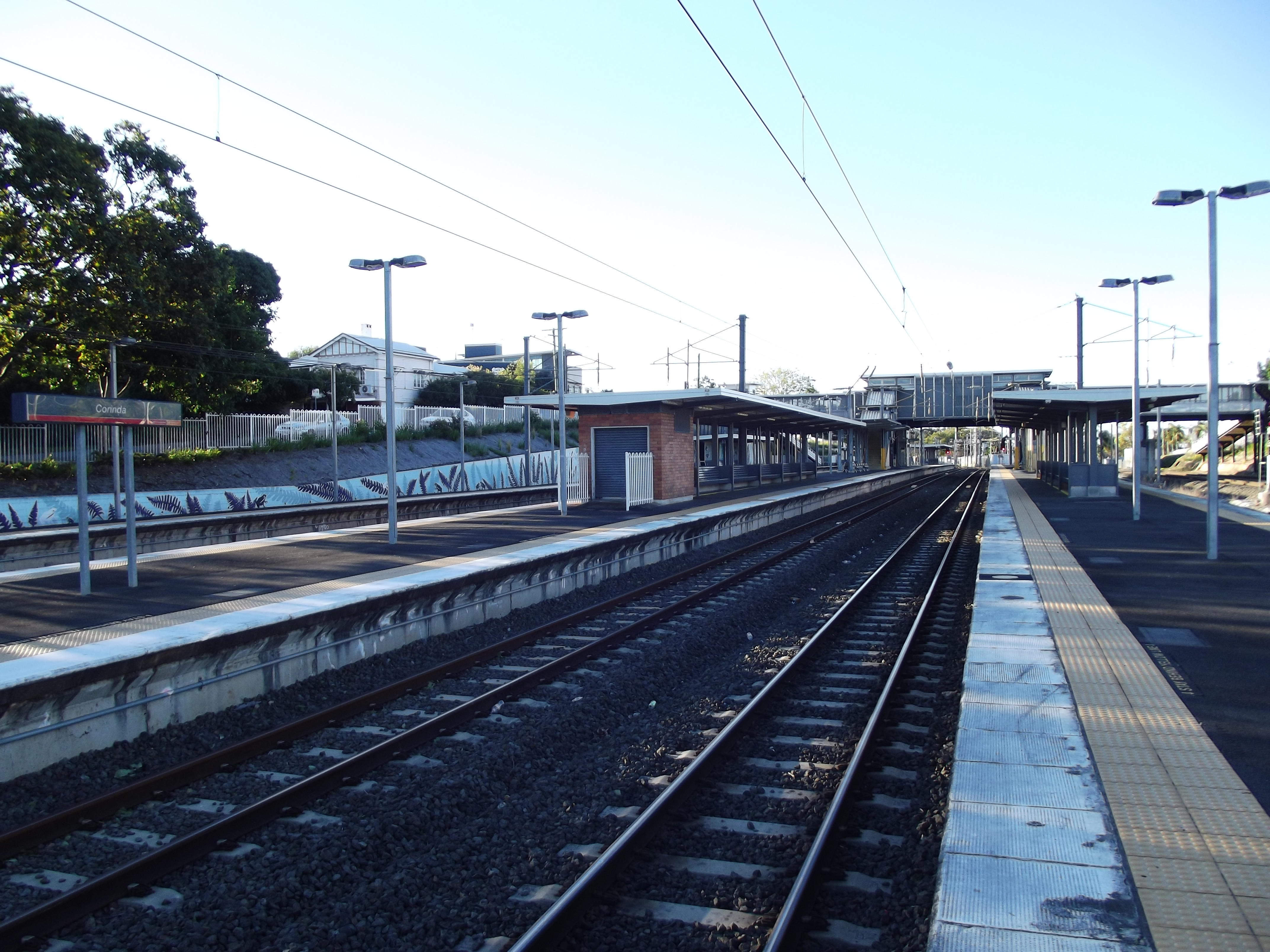 Corinda station, on the Richlands/Ipswich line.